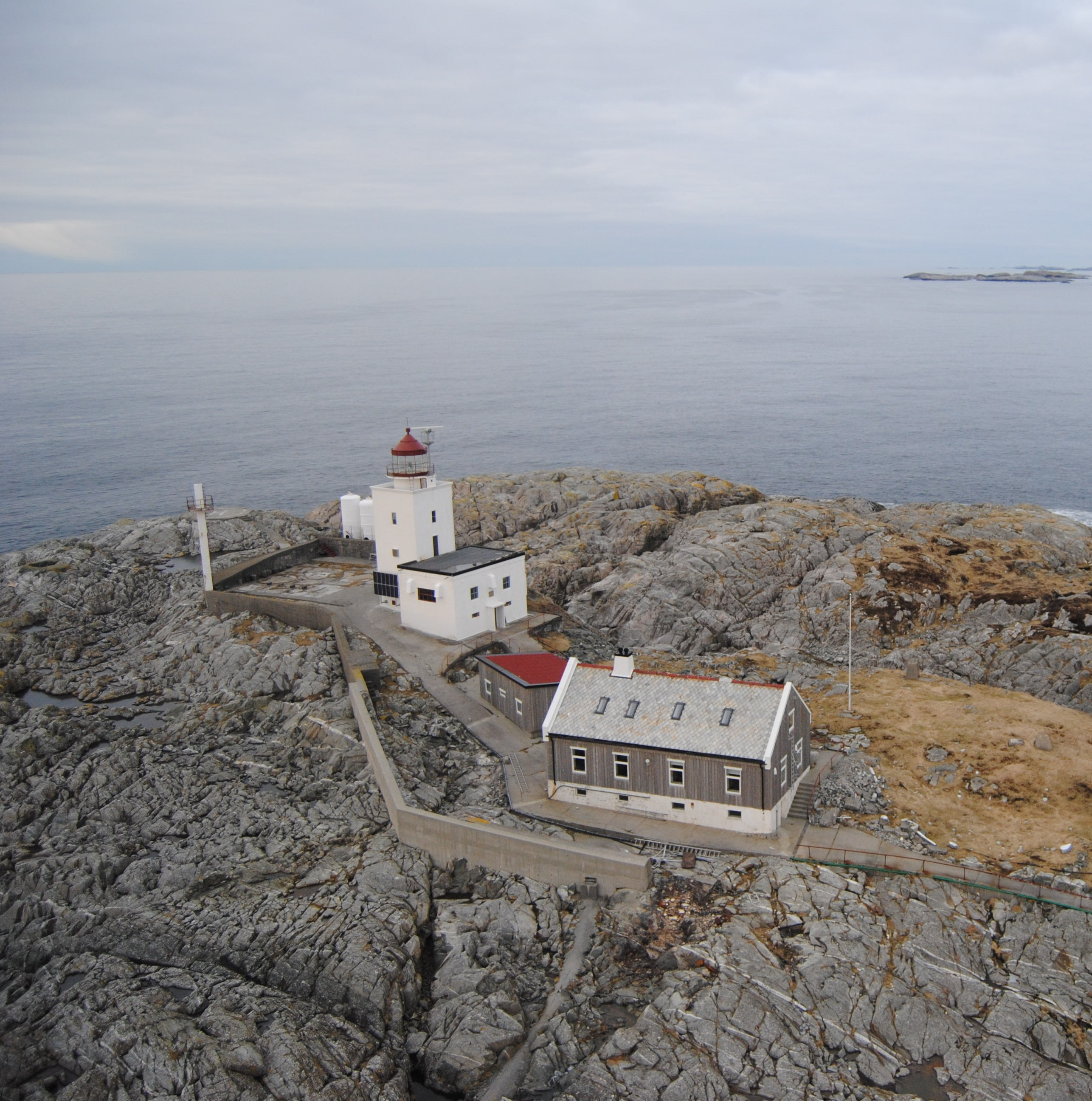 Marstein Lighthouse, buildings